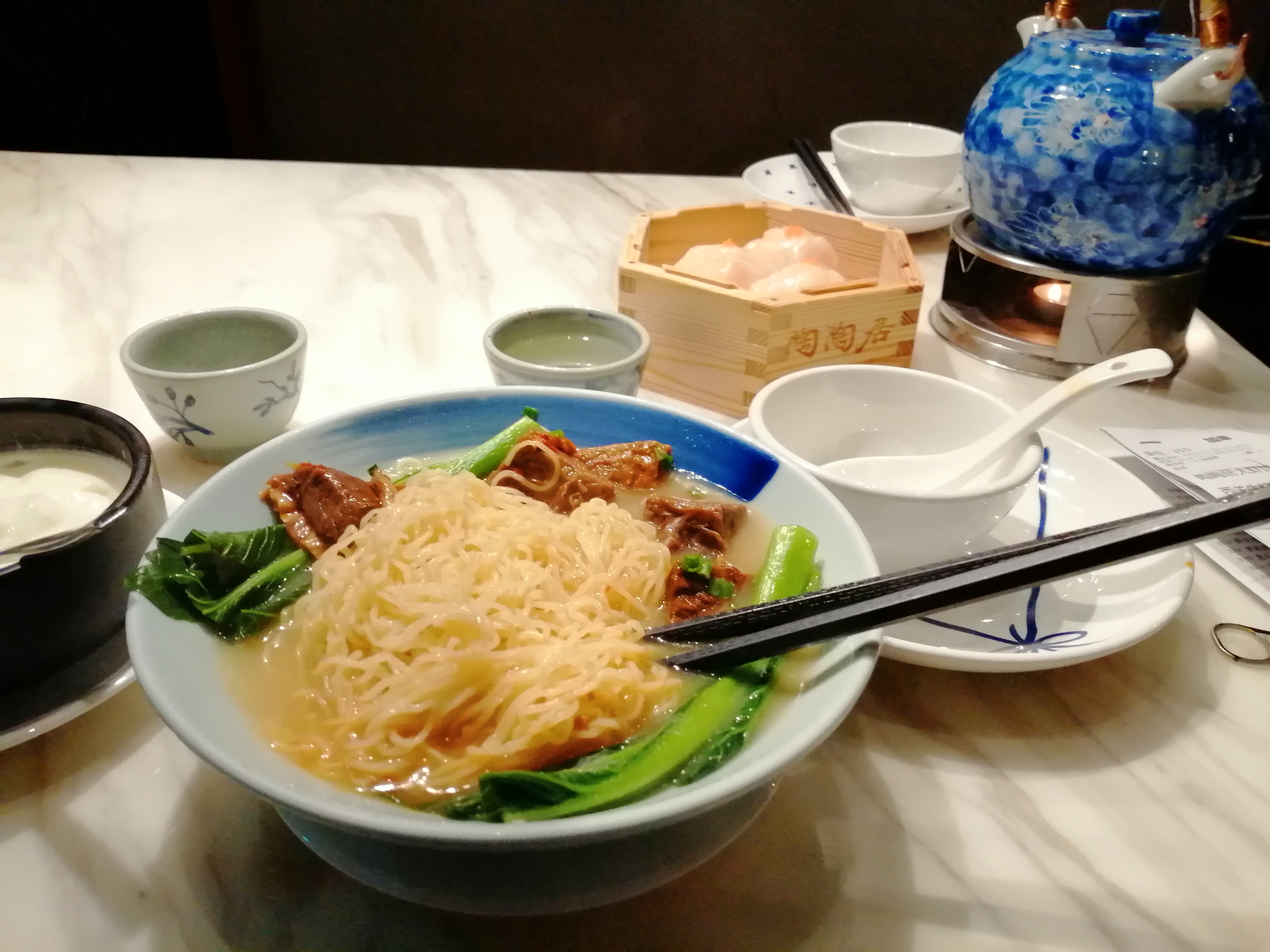 I ordered three meals: Beef noodle soup, Double skin milk and Har gow (Xiajiao, shrimp dumpling).